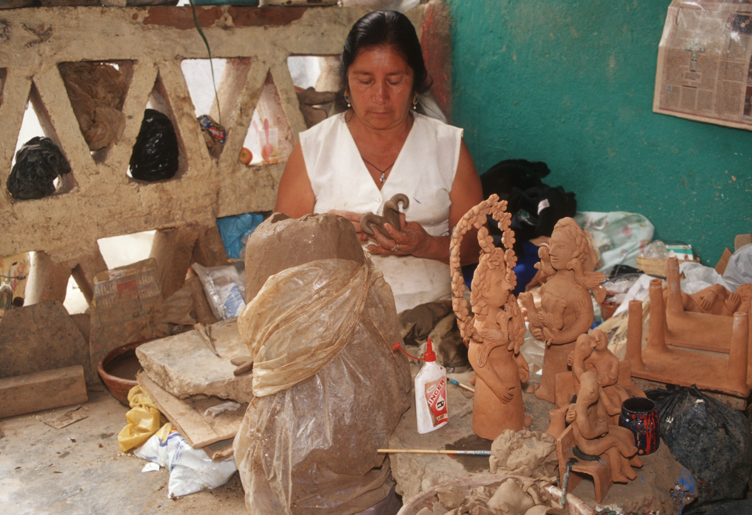 Josefina Aguilar Alcantara of the Aguilar family of Ocotlán de Morelos, Oaxaca Mexico